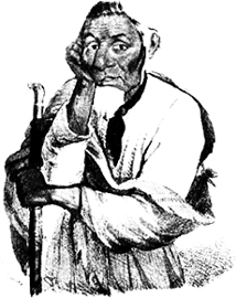 The 17th century French Canadian explorer and trader.